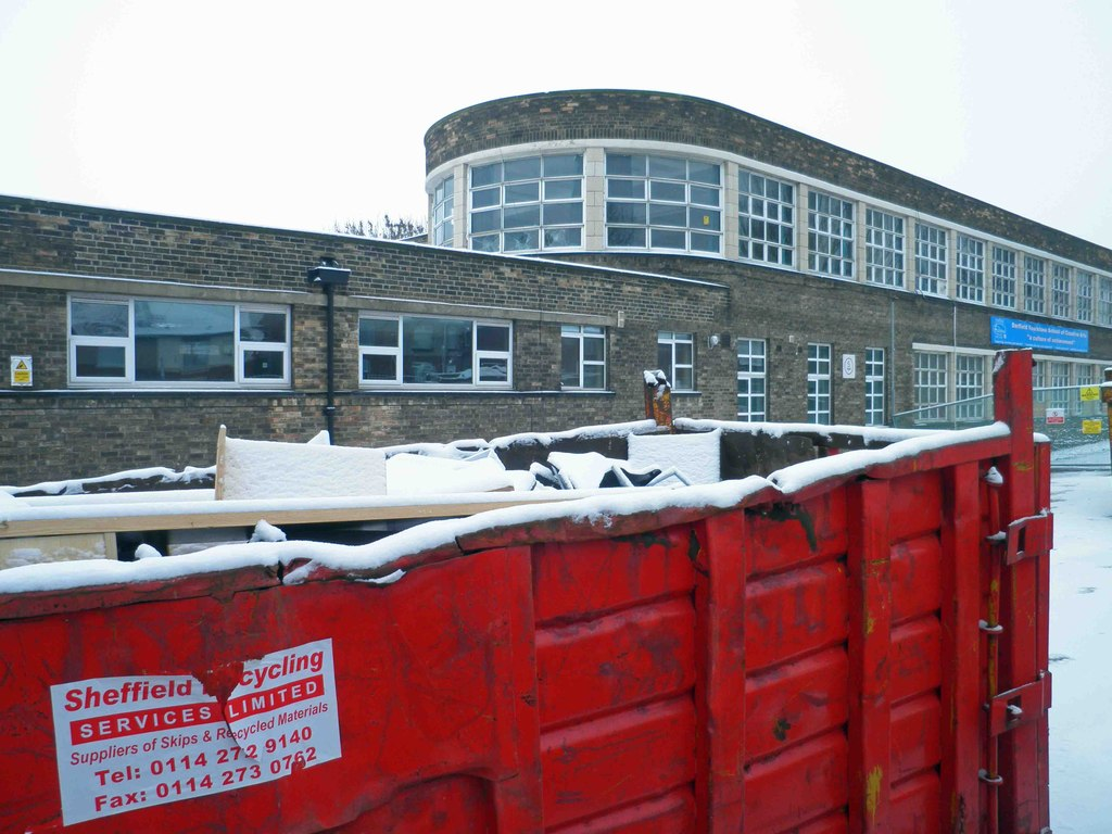 The end is nigh